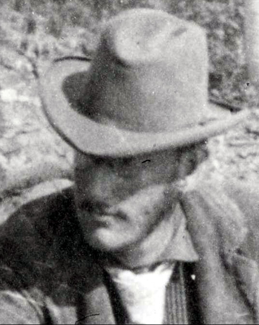 Professor Conway MacMillan, from a pic with Nachtrieb, Henry Francis, 1859-1900? and Josephine Tilden of the University of Minnesota